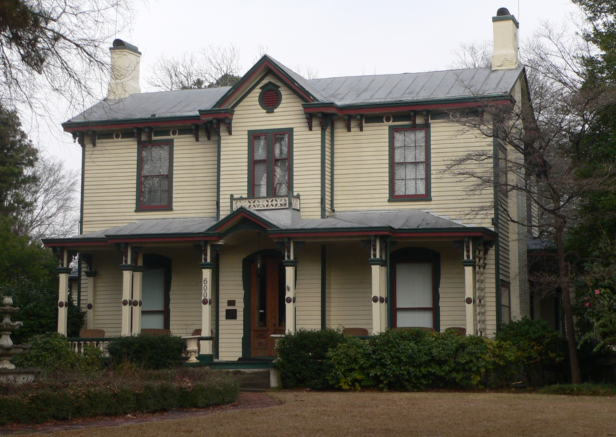 Davis-Whitehead-Harris house, a.k.a. James Davis house, located at 600 W. Nash Street in Wilson, North Carolina; seen from the southwest.